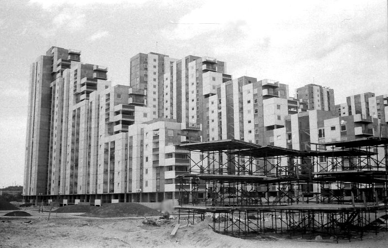 Novi Beograd in 1978.